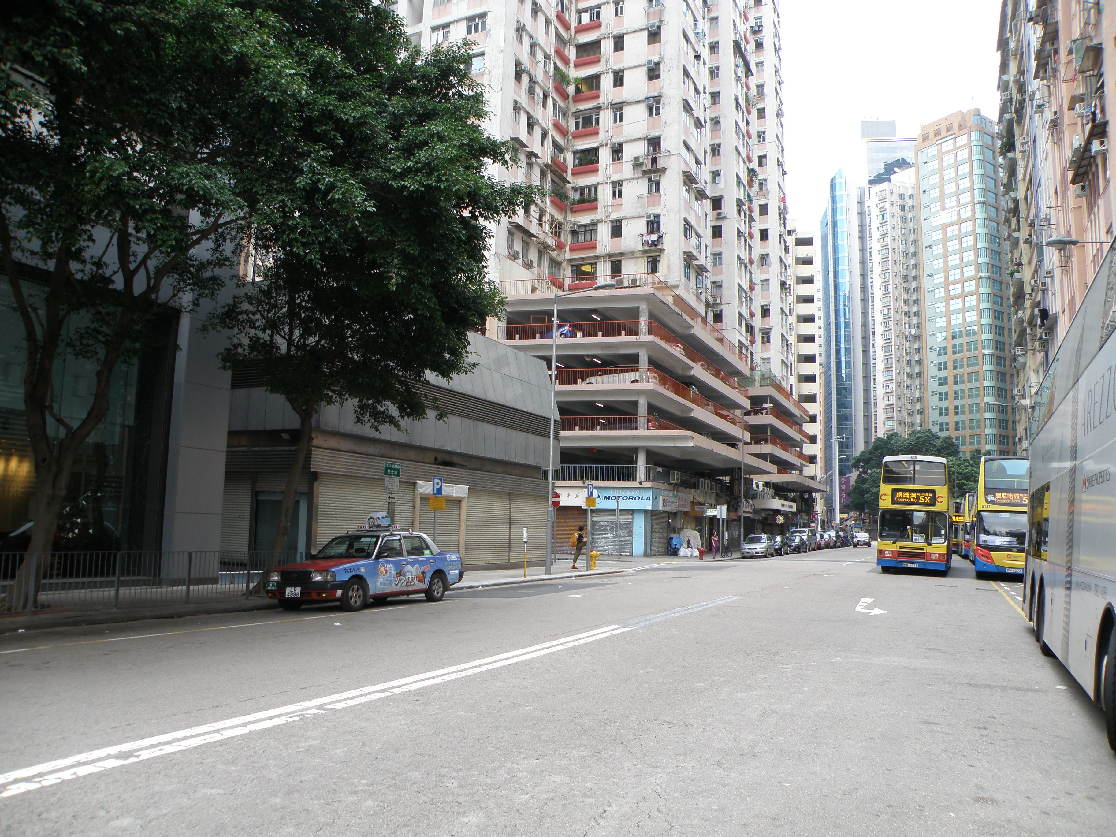 Whitfield Road in Tin Hau, Hong Kong.